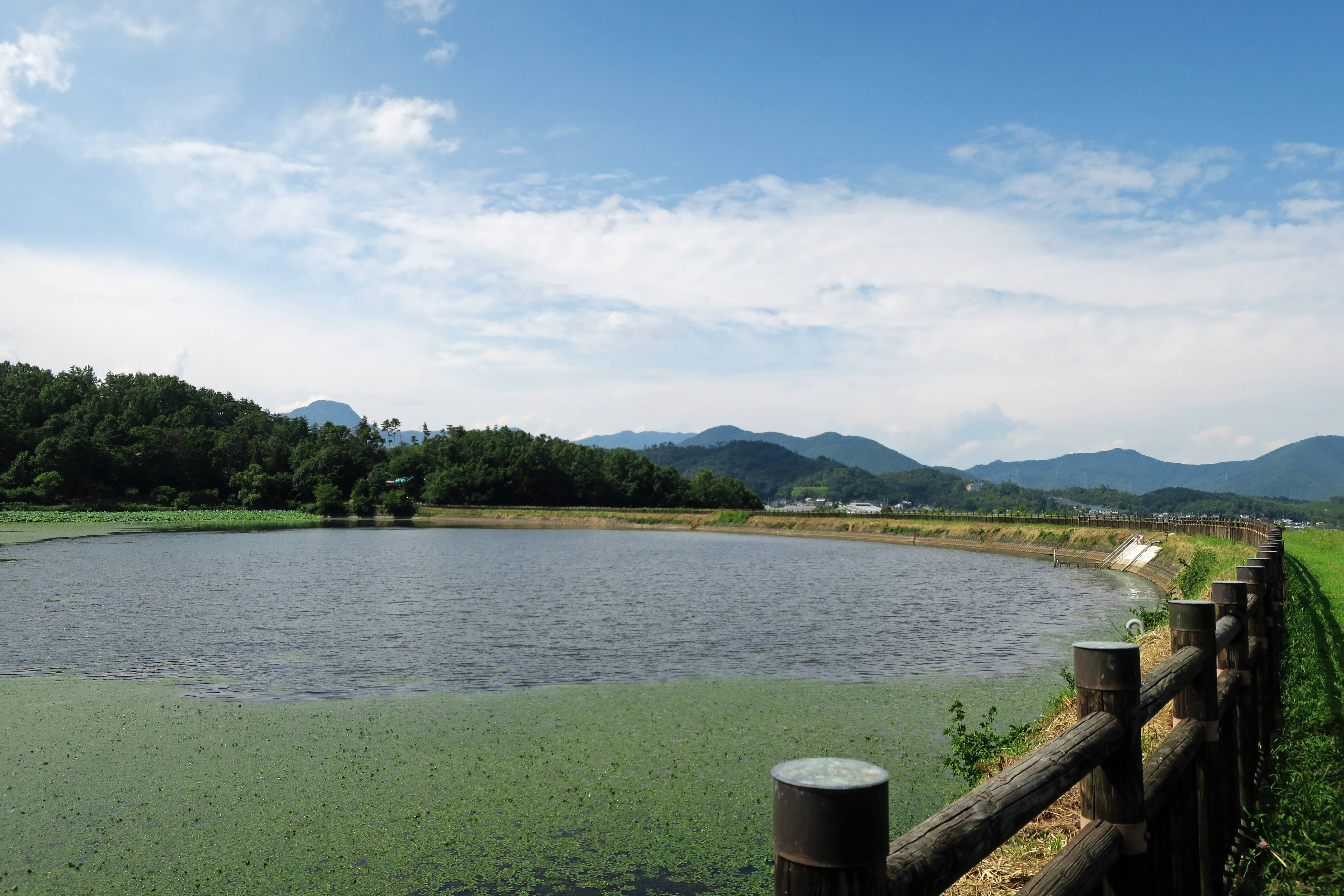 Shitakui Pond (Tezuka Pond ; Ueda, Nagano).